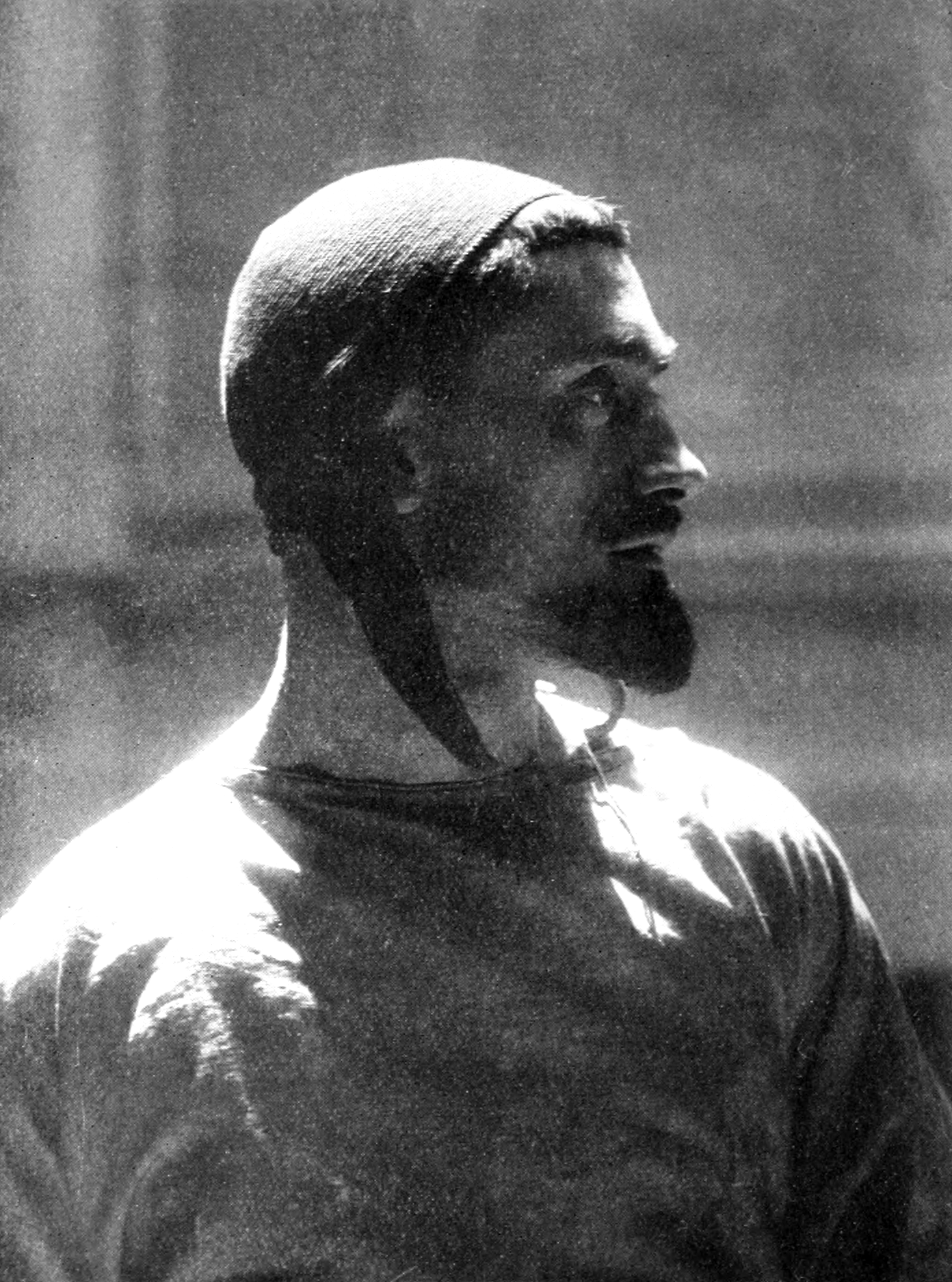 'Angelo Zanelli, Italy's greatest Sculptor.'